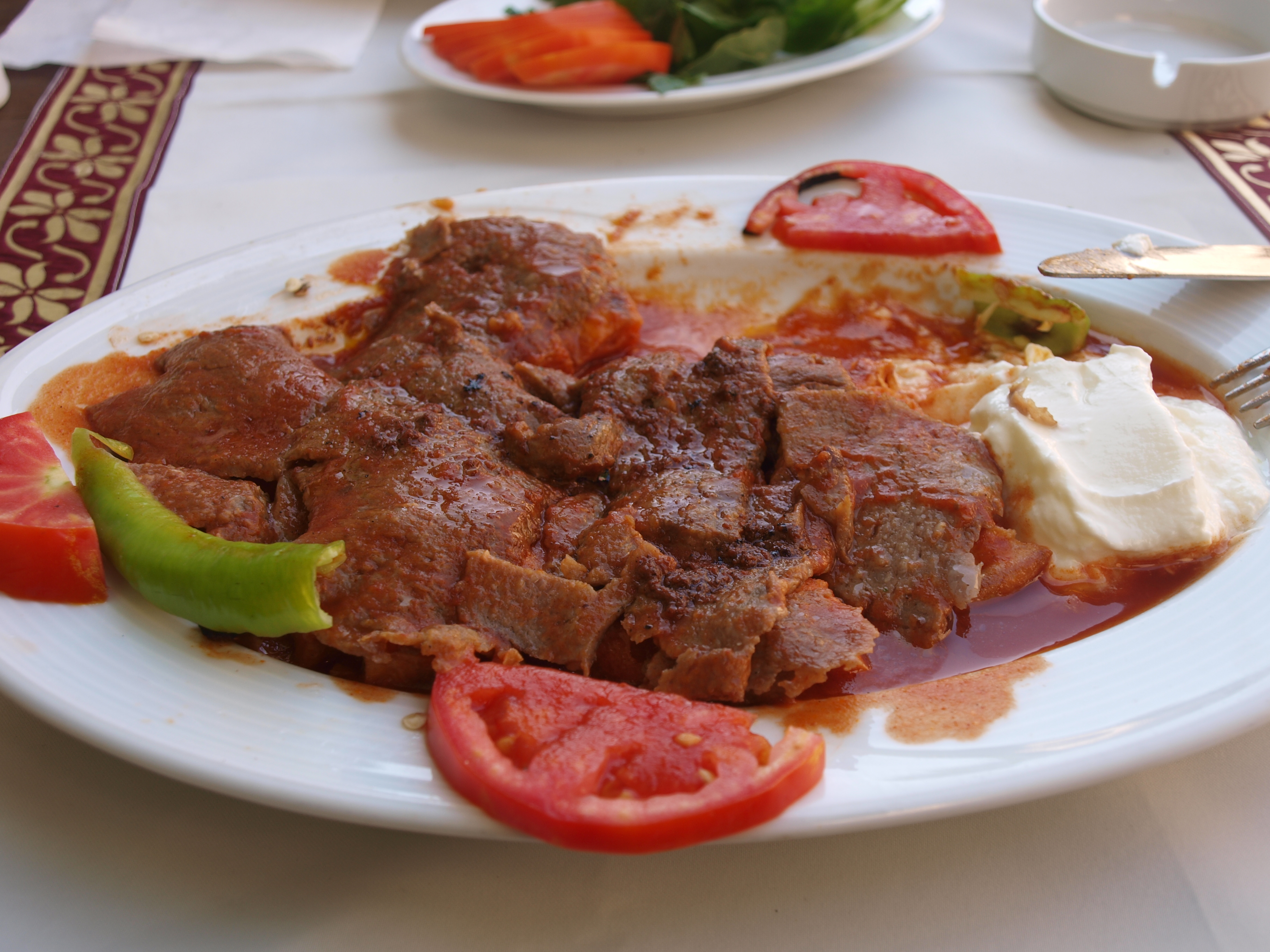 İskender kebap, a turkish dish.